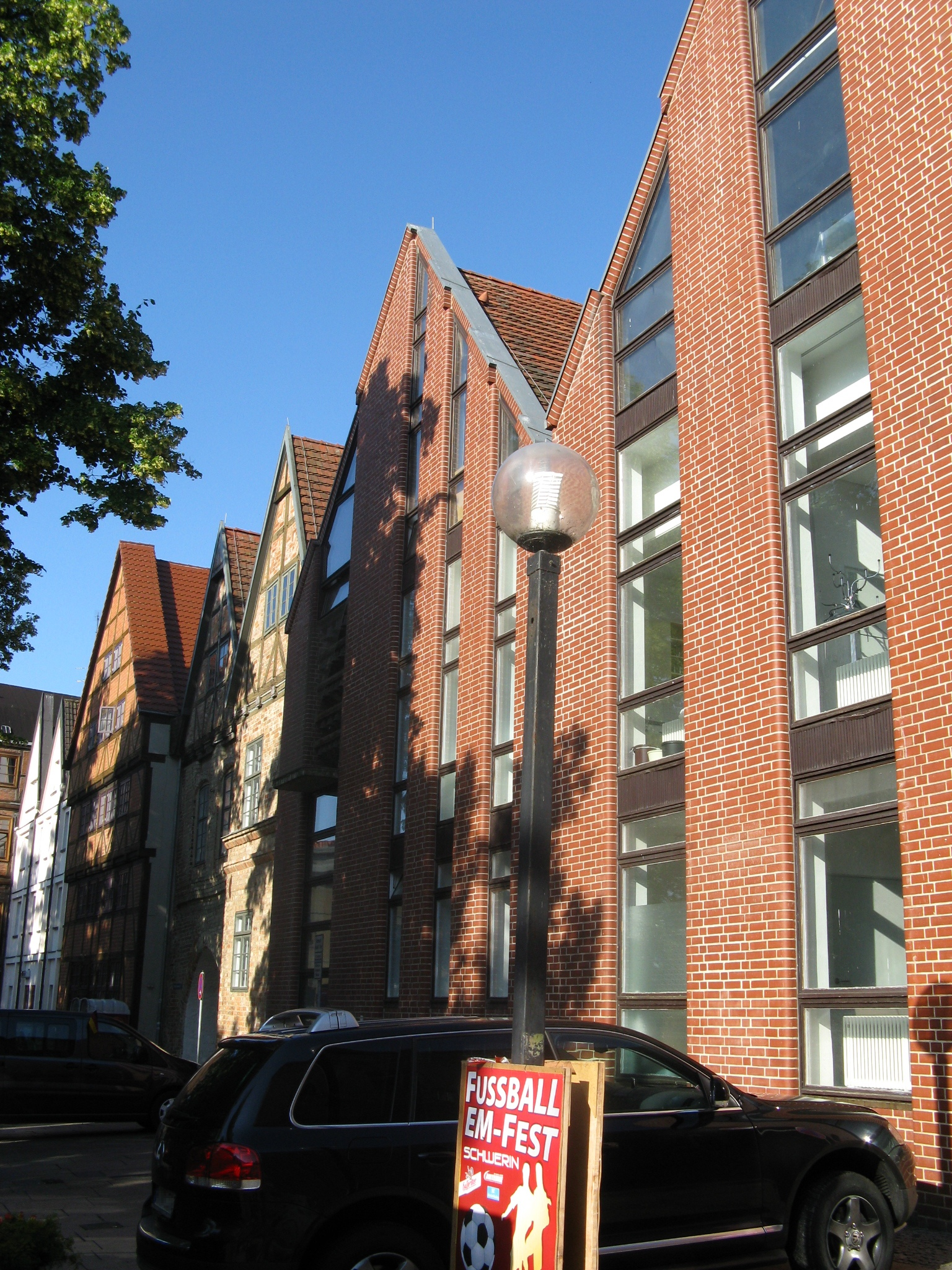 Town hall in Schwerin, Germany from back (eastern) side